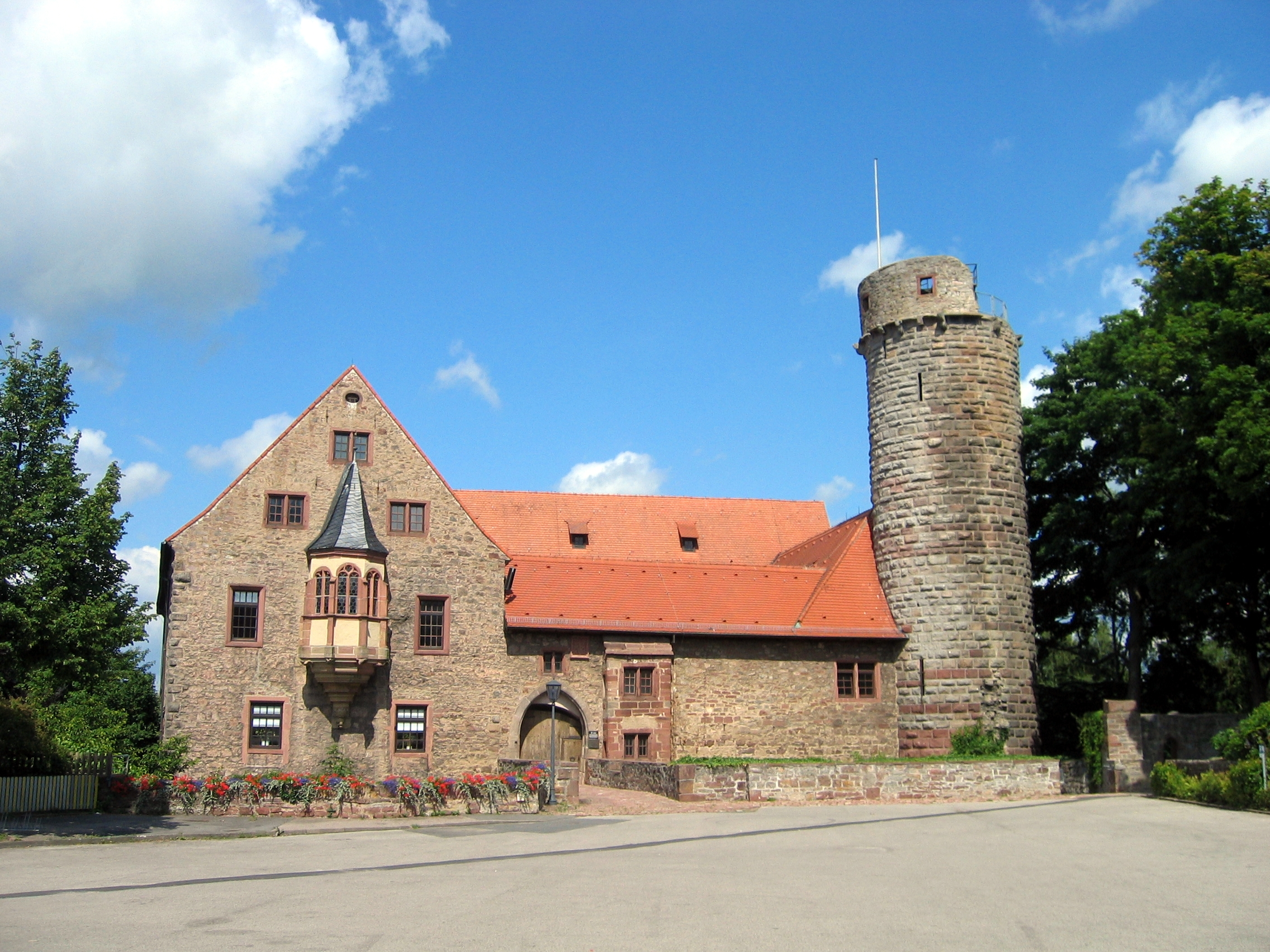 Castle of Külsheim, Baden-Württemberg, Germany. View from the South.